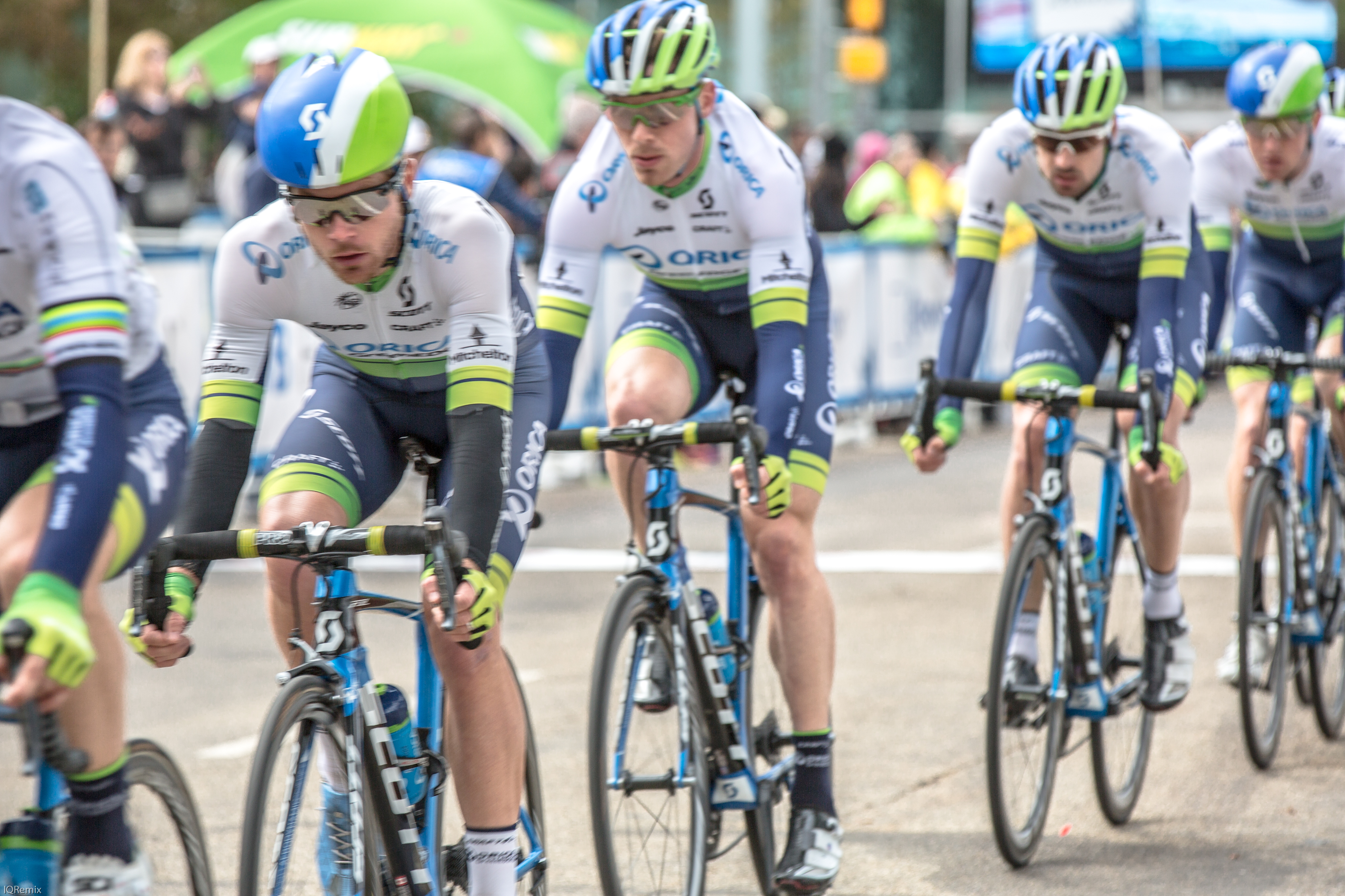 Tour of Alberta 2015 - Edmonton